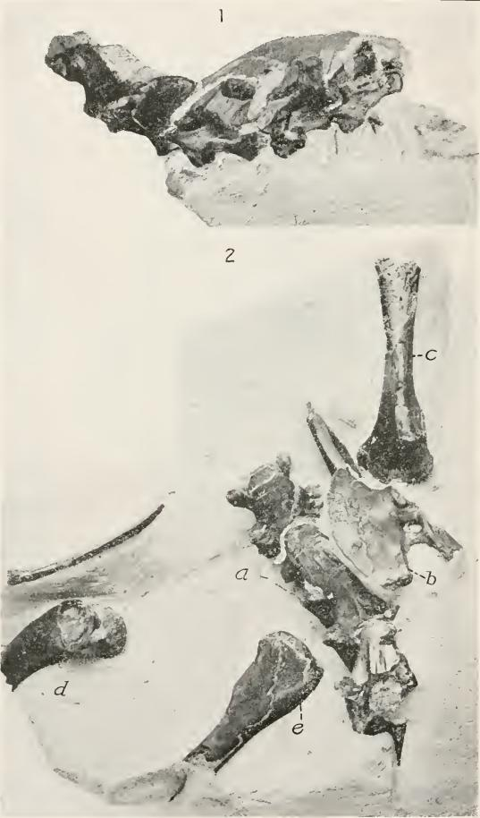 Photographs of the vertebrae and limb bones of the holotype fossil of Saniwa ensidens in "A new description of Saniwa ensidens Leidy, an extinct varanid lizard from Wyoming" by Charles W. Gilmore (Proceedings of the U.S. National Museum 60 (23): 1-28).